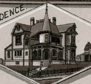 The Caswell House, also called the Caswell-Taylor House, which once stood in Knoxville, Tennessee, United States